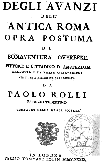 Remnants of ancient Rome, by Bonaventure van Overbeek, painter and citizen of Amsterdam, translated and increased with comments and reflections by Paolo Rolli